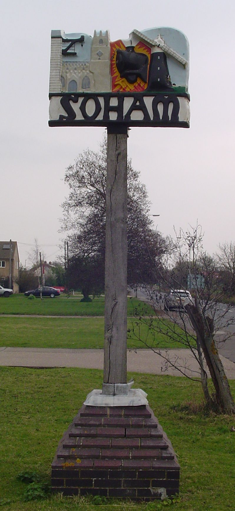 Signpost in Soham